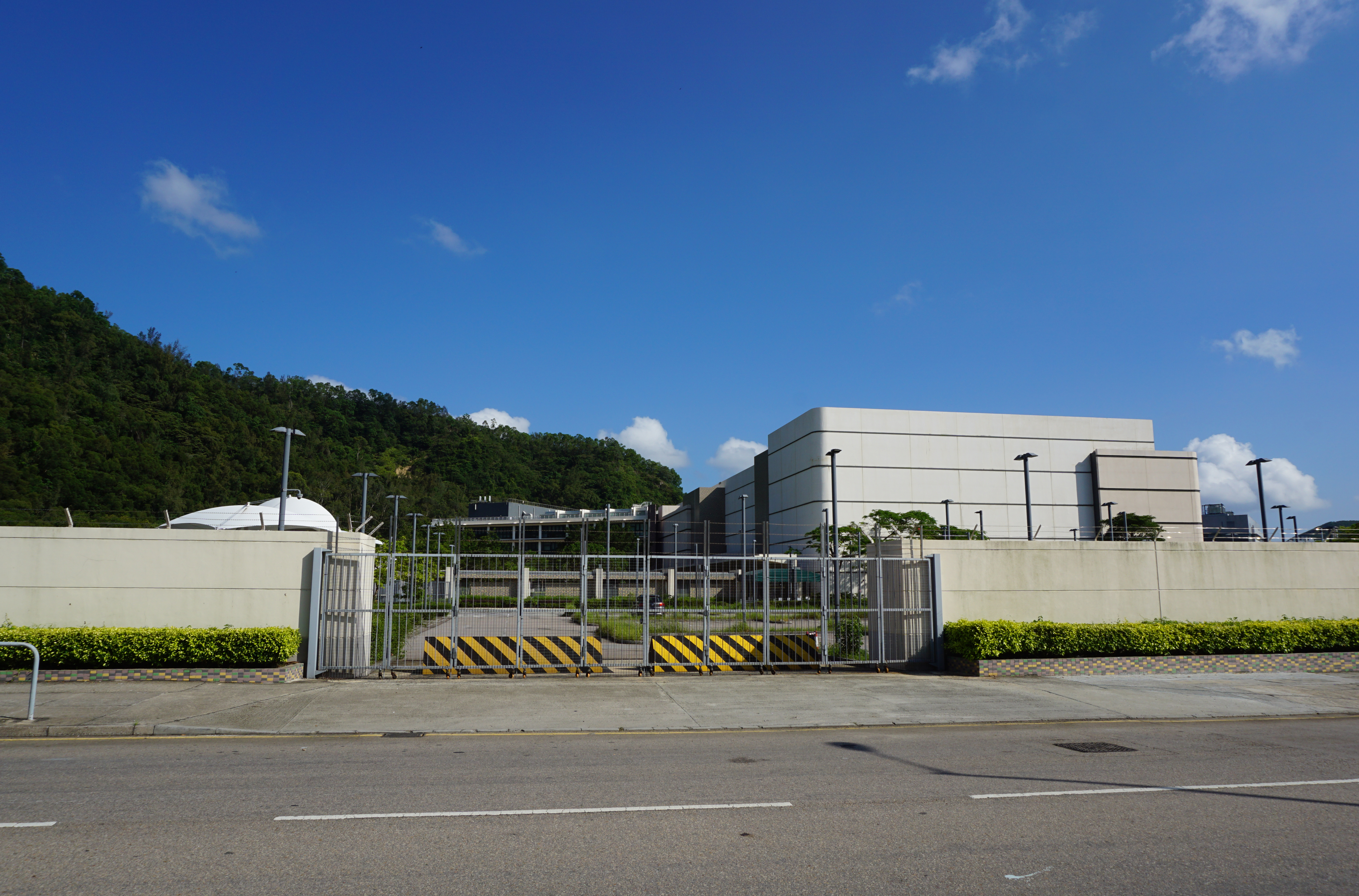 HSBC Building in Tai Chik Sha, Hong Kong.